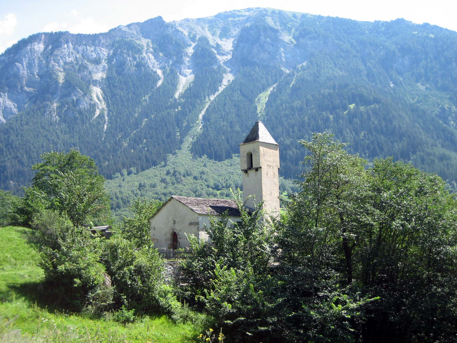 Church of Clugin, Grisons, Switzerland